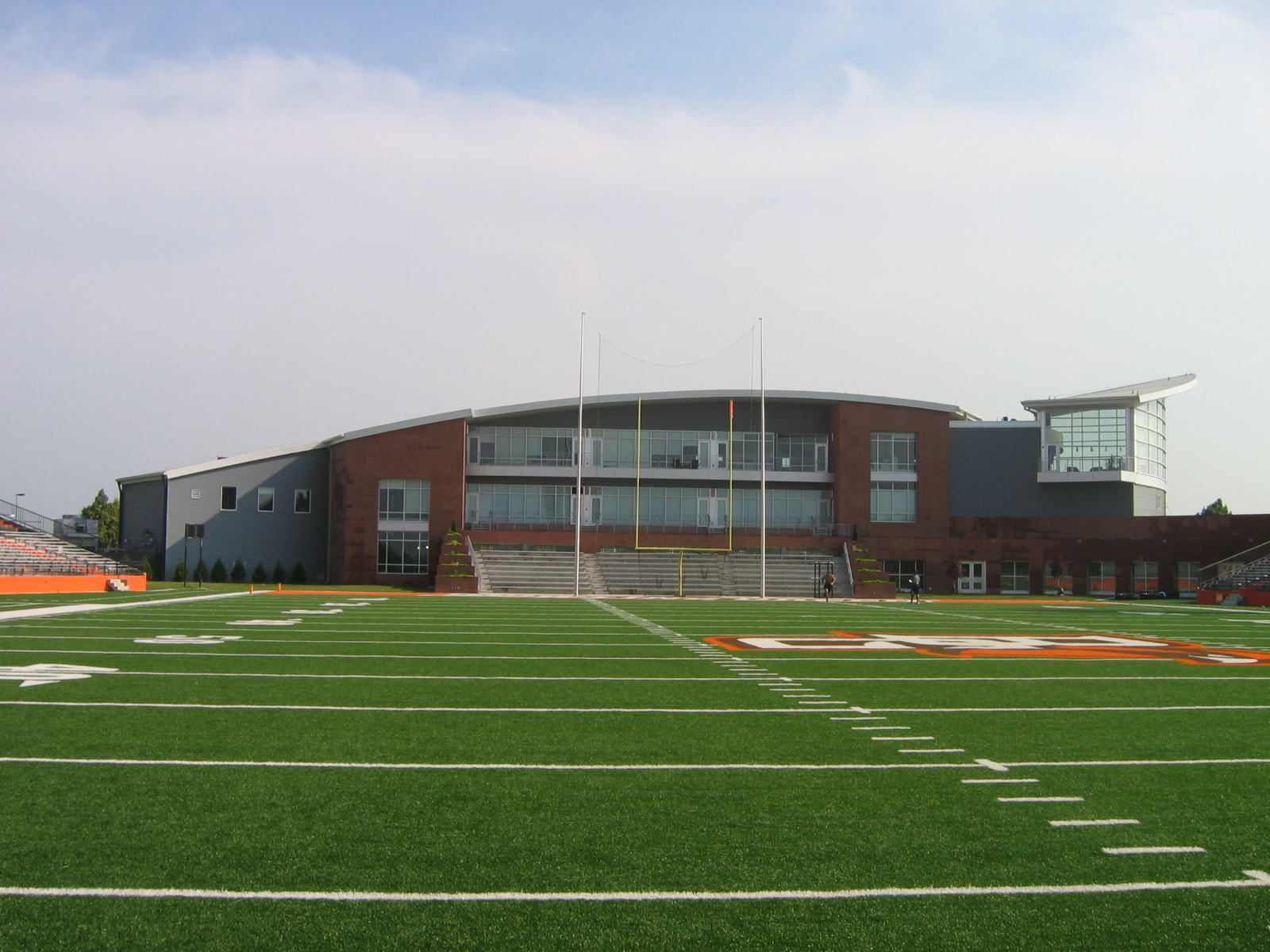 Football & Basketball Facilities Bowling Green Football Stadium